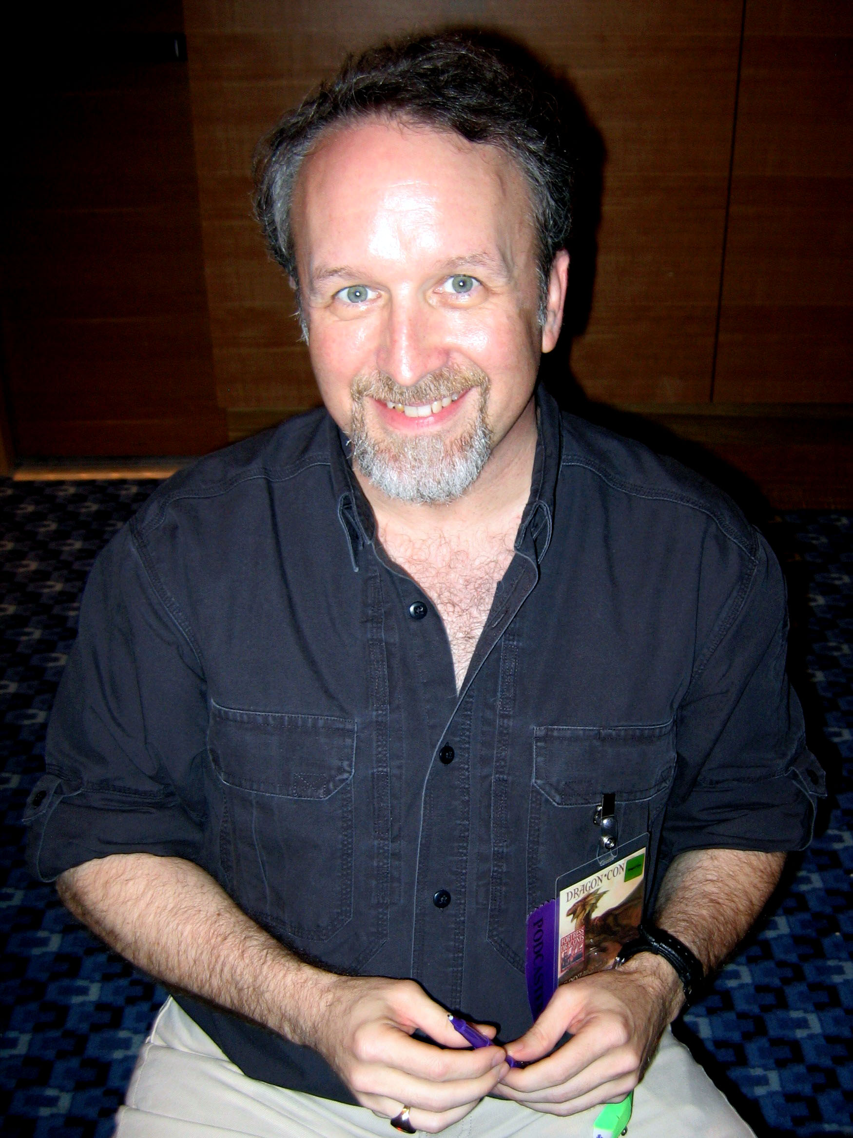 Michael A. Stackpole, author of I, Jedi. Picture taken at Dragon Con 2007.